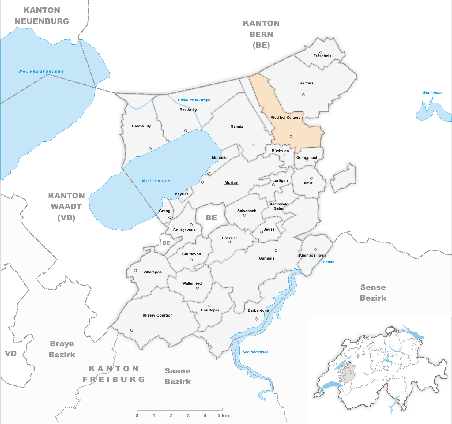 Municipality Ried bei Kerzers